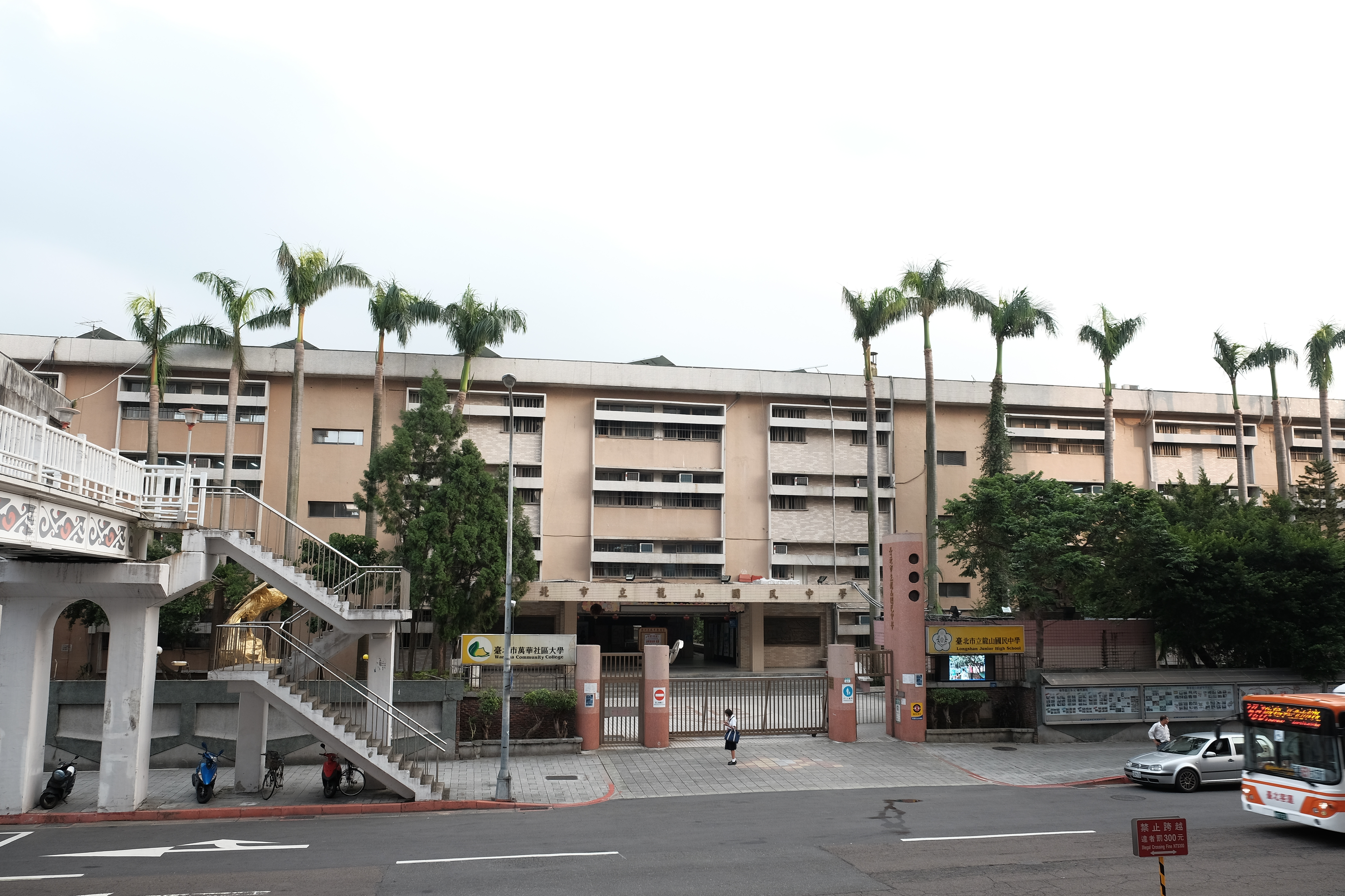 Taipei Municipal LongShan Junior High School